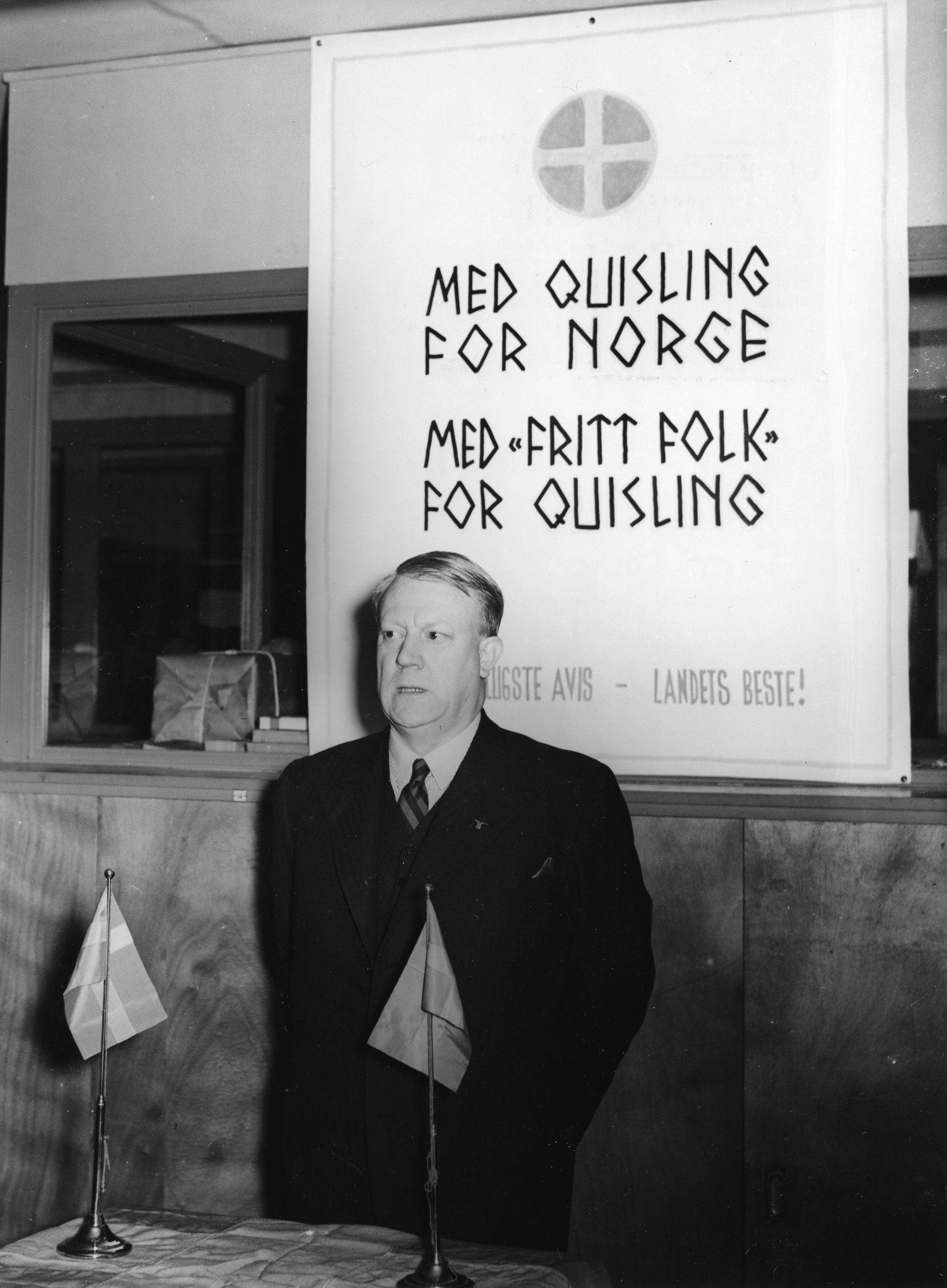 Vidkun Qusiling (1887–1945) was a Norwegian military officer and politician. He first came to international prominence when organizing humanitarian relief during the Russian famine of 1921 in Ukraine. He served as Minister of Defence in two governments 1931–1933, representing the Farmers' Party. On 9 April 1940, with the German invasion of Norway in progress, he attempted to seize power in the world's first radio-broadcast coup d'état, but failed after the Germans refused to support his government. From 1942 to 1945 he served as Minister-President, heading the Norwegian state administration jointly with the German civilian administrator Josef Terboven. His pro-Nazi puppet government, known as the Quisling regime, was dominated by ministers from Nasjonal Samling, the party he founded in 1933. Quisling was put on trial during the legal purge in Norway after World War II and executed by firing squad at Akershus Fortress, Oslo, on 24 October 1945.